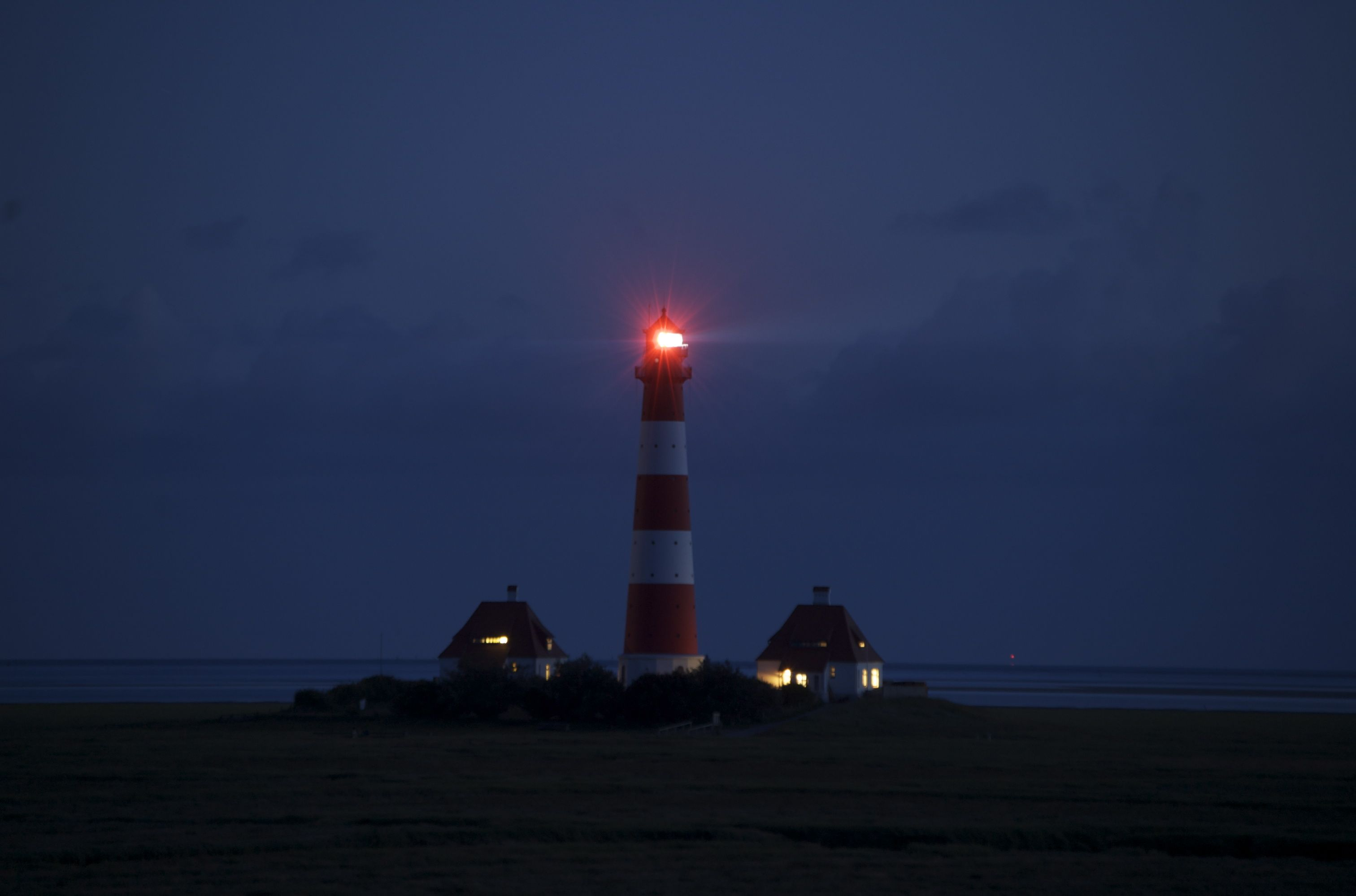 Lighthouse Westerheversand at night